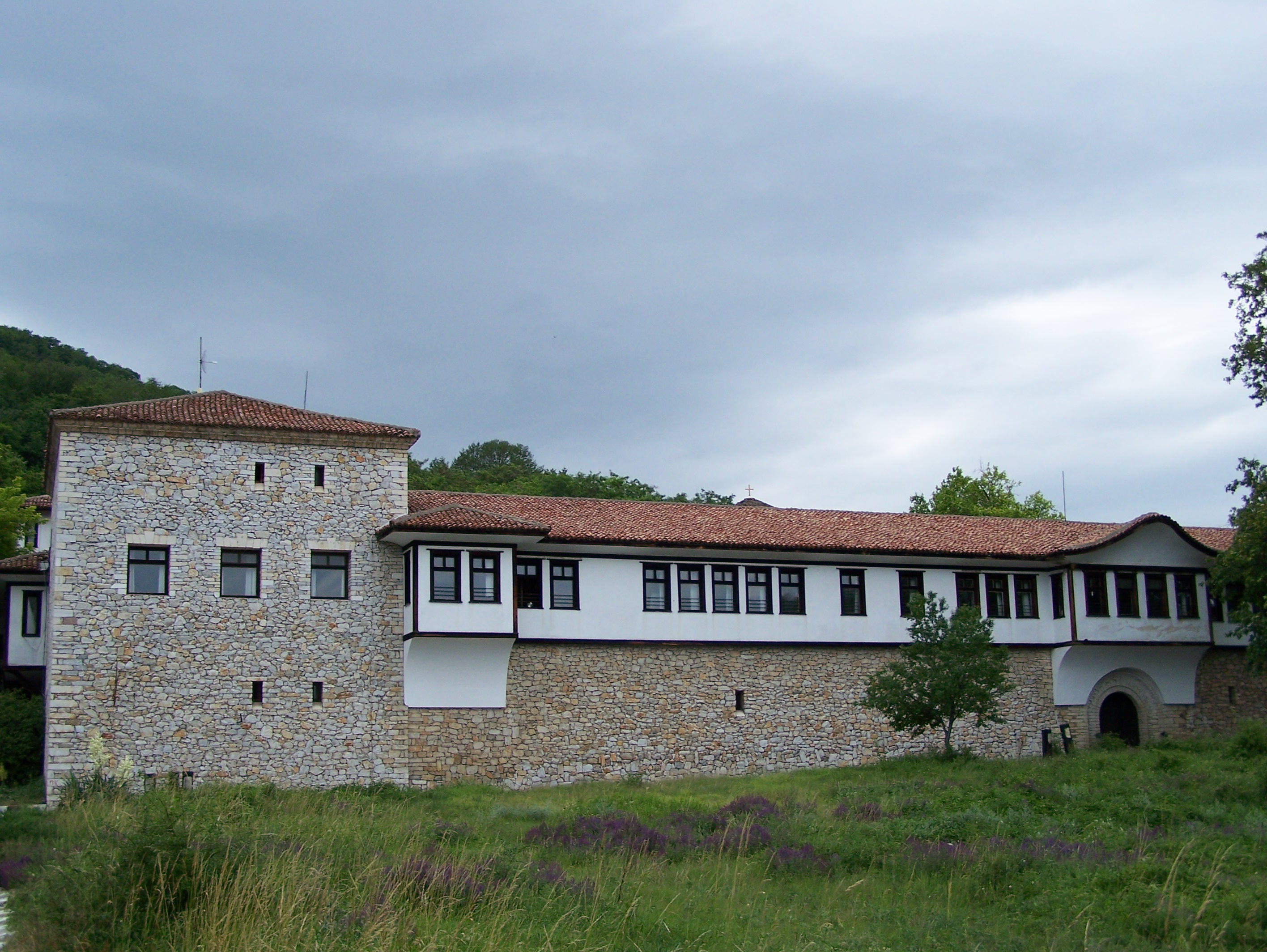 The Gorni Voden monastery "St. Kirik and Julita"